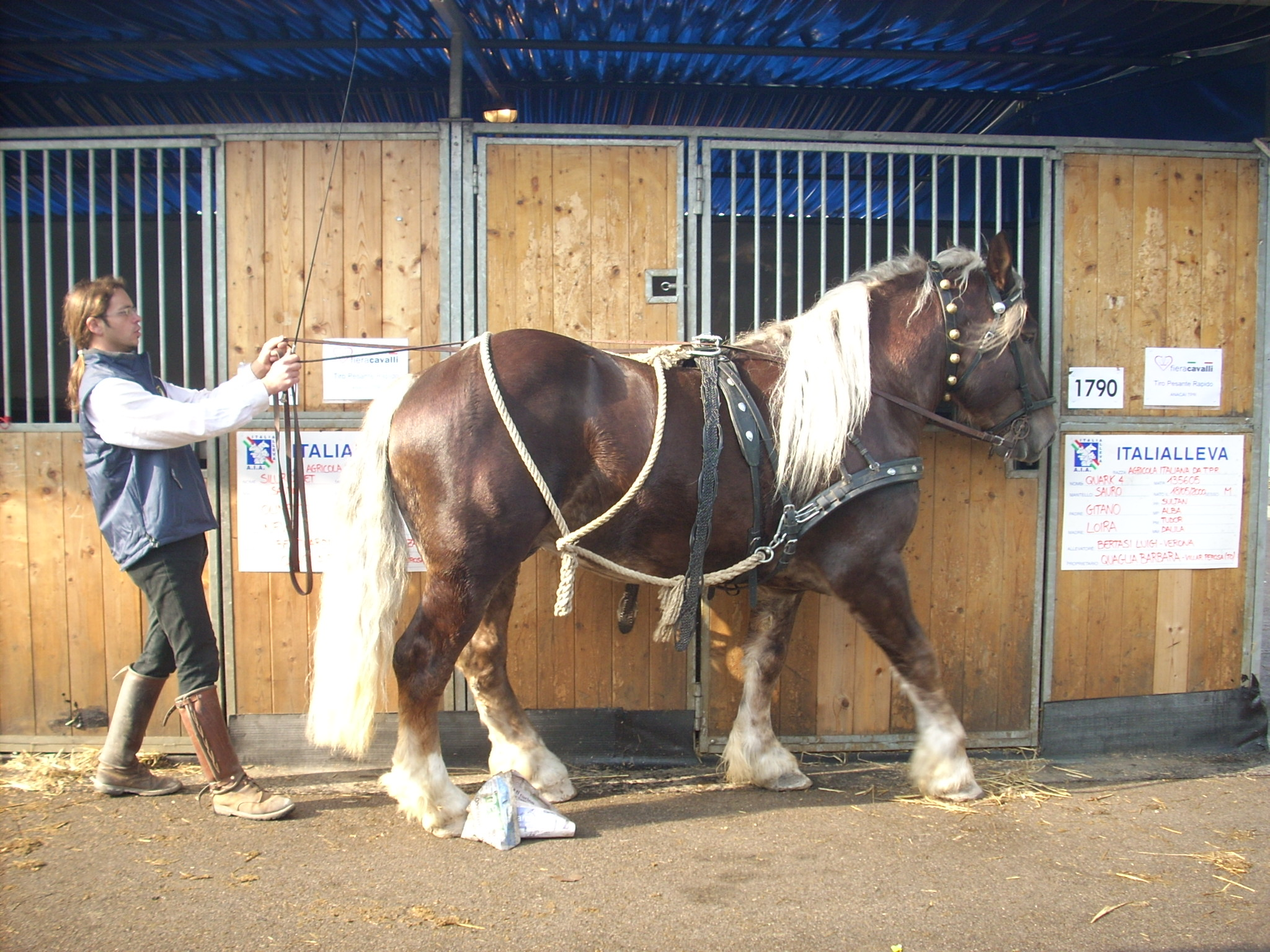 Training of an Italian Heavy Draft at long reins.